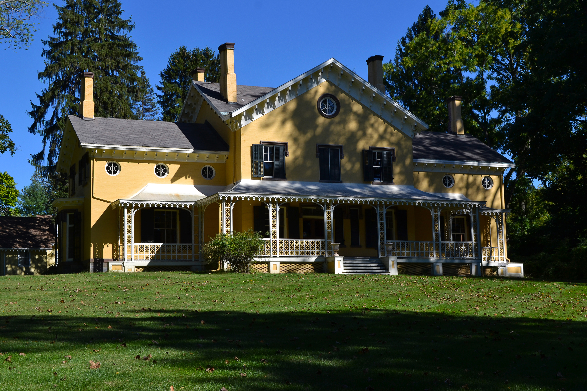 Maple Grove, 301 South Rd. (US 9) Poughkeepsie, NY. Western (Front) Elevation